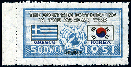 Postage stamp of South Korea, The countries participating in the Korean war series, Greece, 500 won, 1951, scott#151